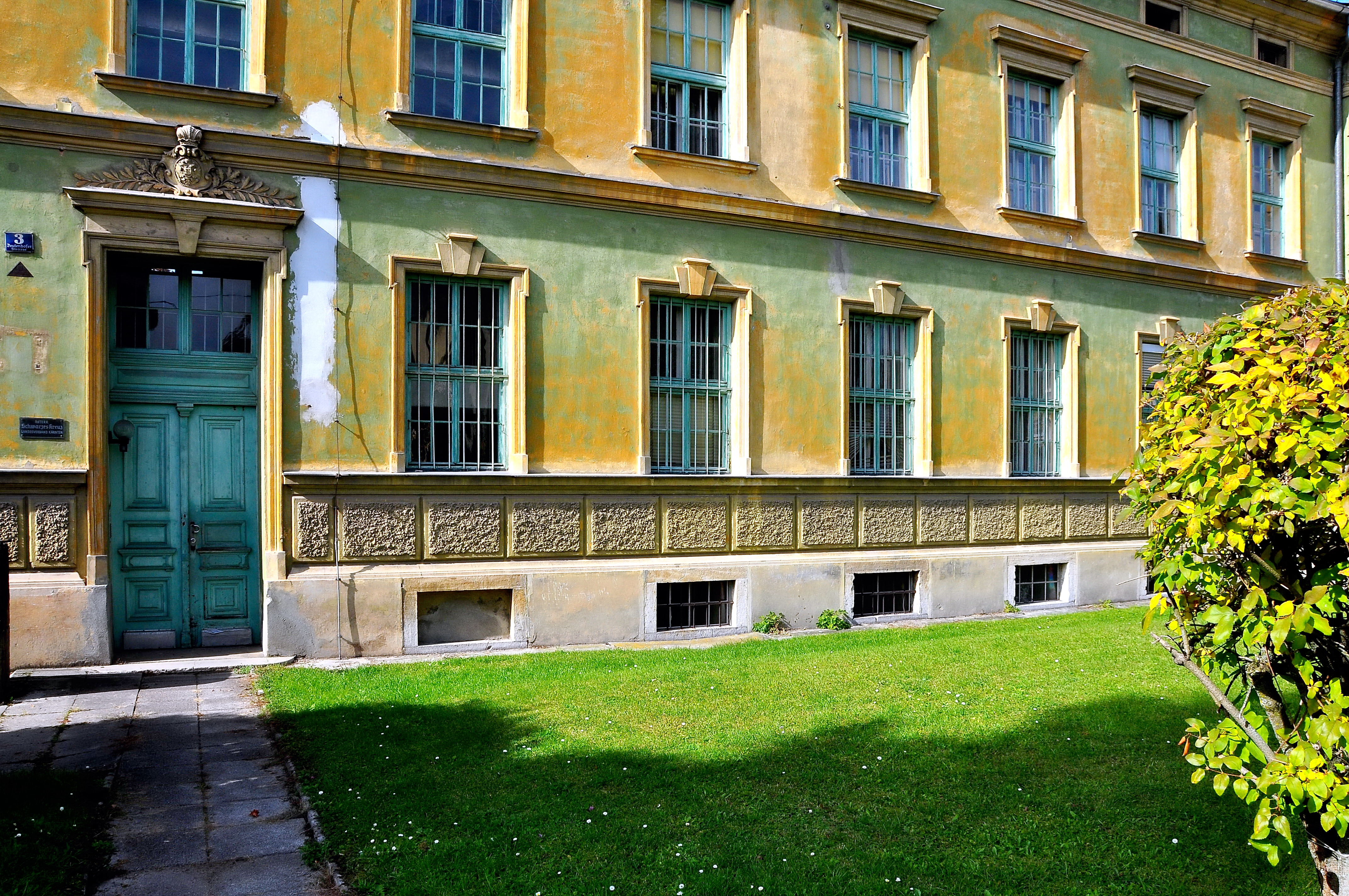 Auxiliary building of the military-industrial complex “Waisenhaus Kaserne”, situated in the Deutenhofenstrasse #3, 5th district Sankt Veiter Vorstadt of the Carinthian capital Klagenfurt on the Lake Woerth, Carinthia, Austria